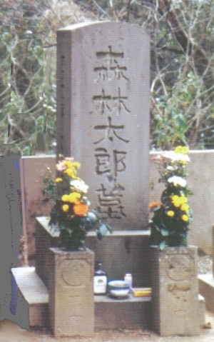 Tomb of Mori Ogai (森鴎外) at Tsuwano